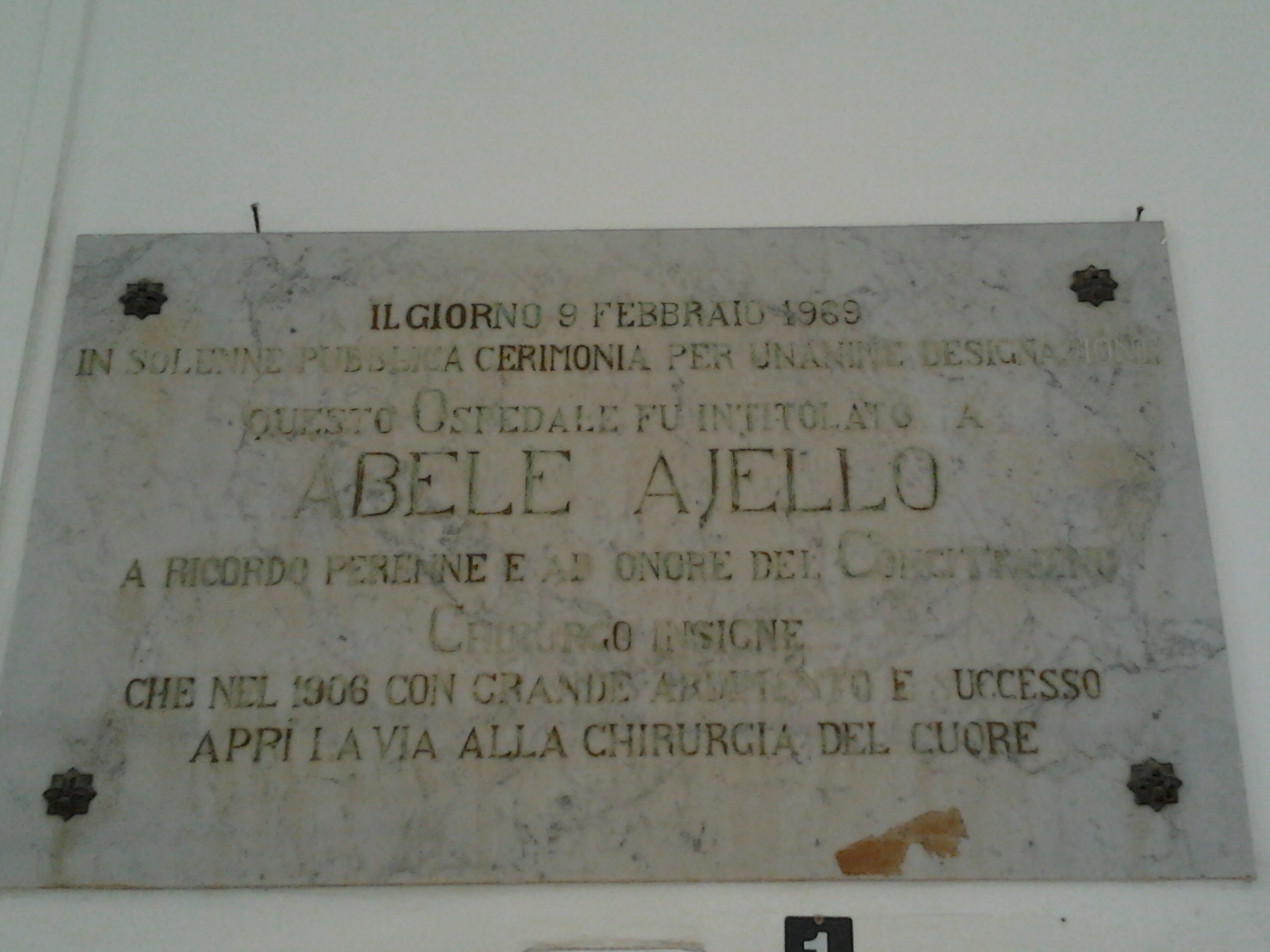 Plaque in Abele Ajella Hospital (Mazara del Vallo)